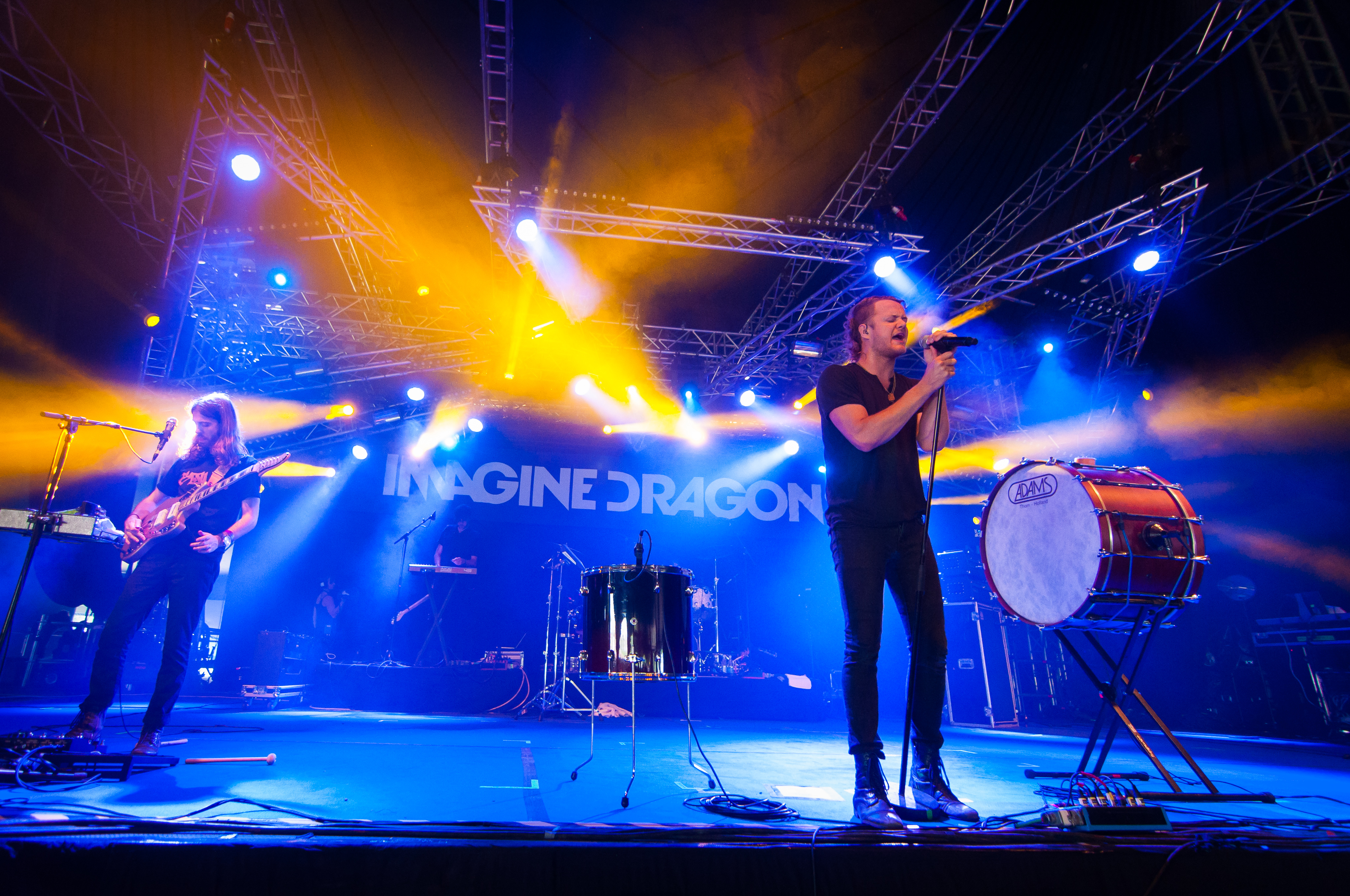 American alternative rock band Imagine Dragons performing at the 2013 Ilosaarirock festival in Joensuu, Finland.